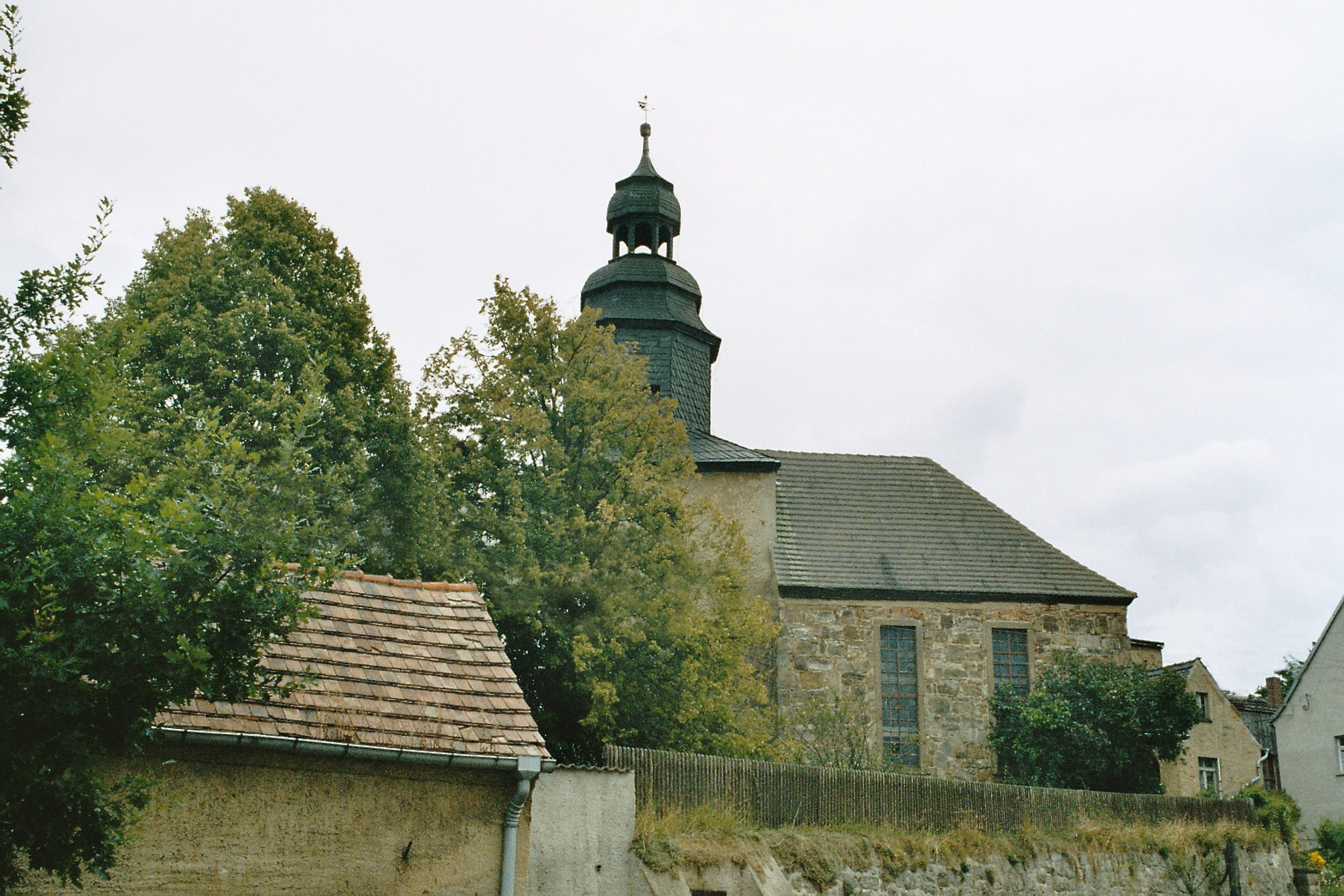 Waldau (Osterfeld)- the village church